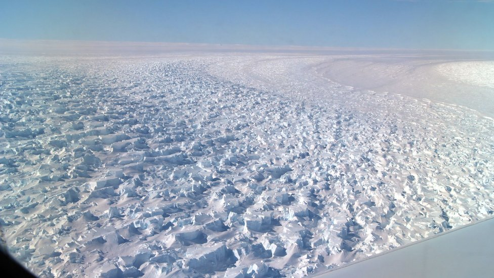 East Antarctic's Denman Canyon is the deepest land gorge on Earth, reaching 3,500m below sea-level. Denman Glacier shed 270 billion tonnes of ice between 1979 and 2017